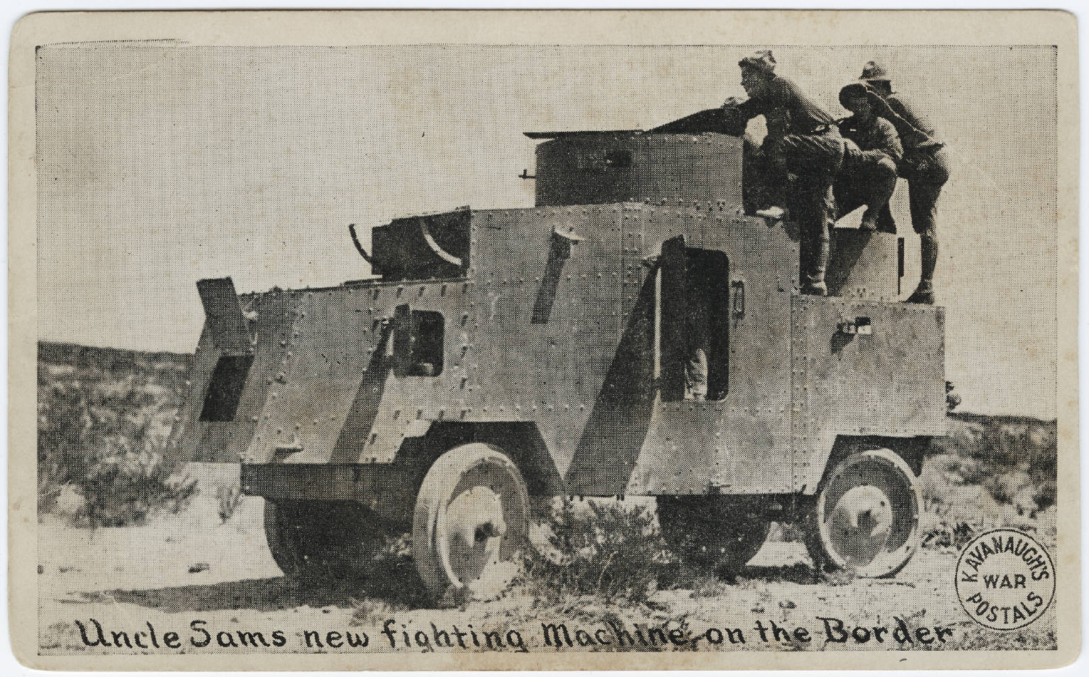 Postcard or print of a photo taken during the Mexican Revolution.